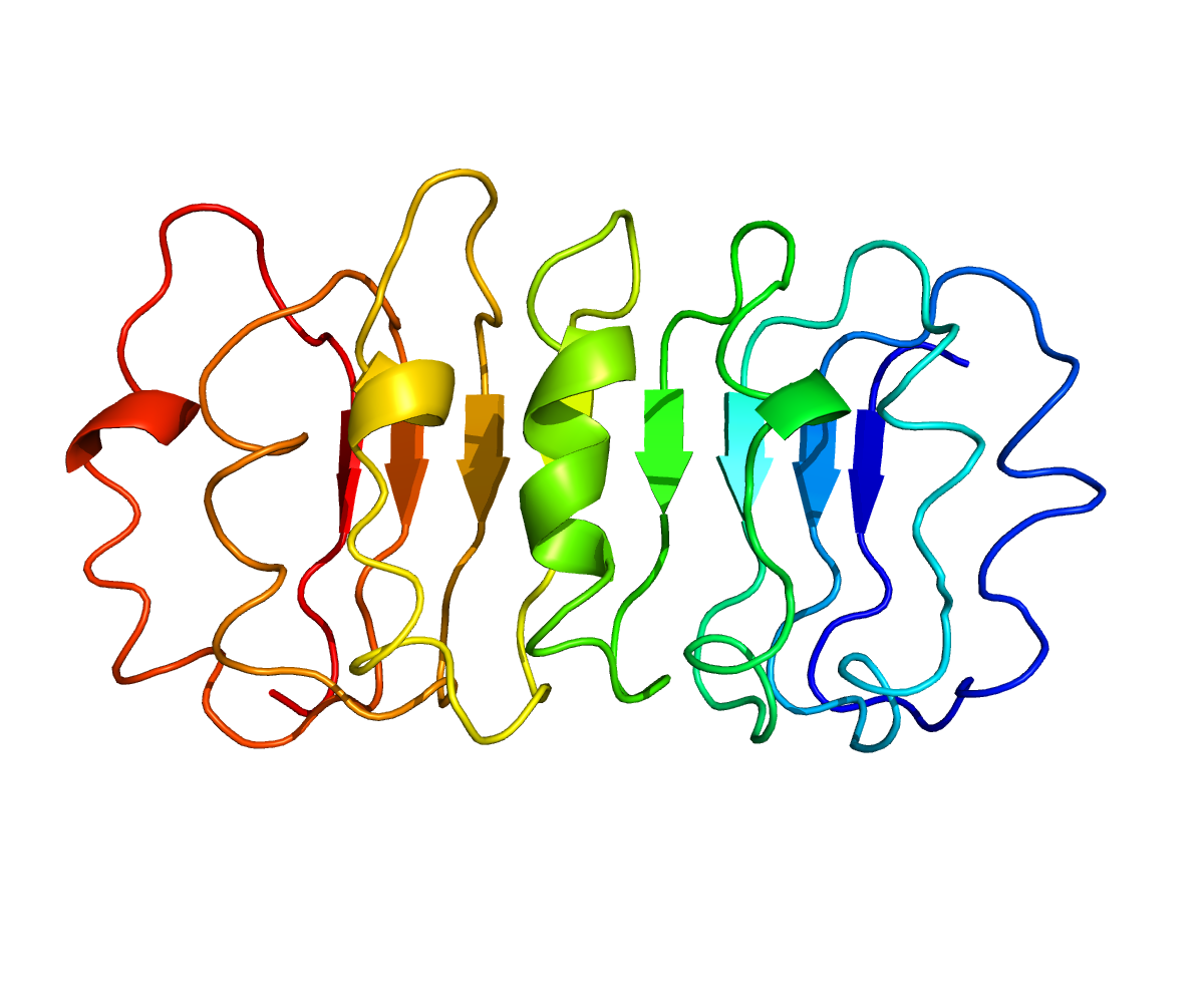 Structure of protein TSHR.Based on PyMOL rendering of PDB 1XUM.